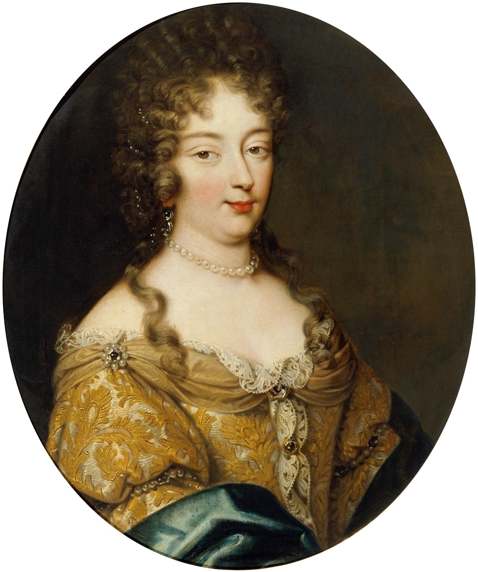 Portrait of Olympia Mancini (1640-1708), mother of Prince Eugene of Savoy